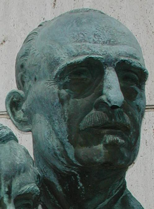 Karl Oskar Medin, Swedish physician; polio expert